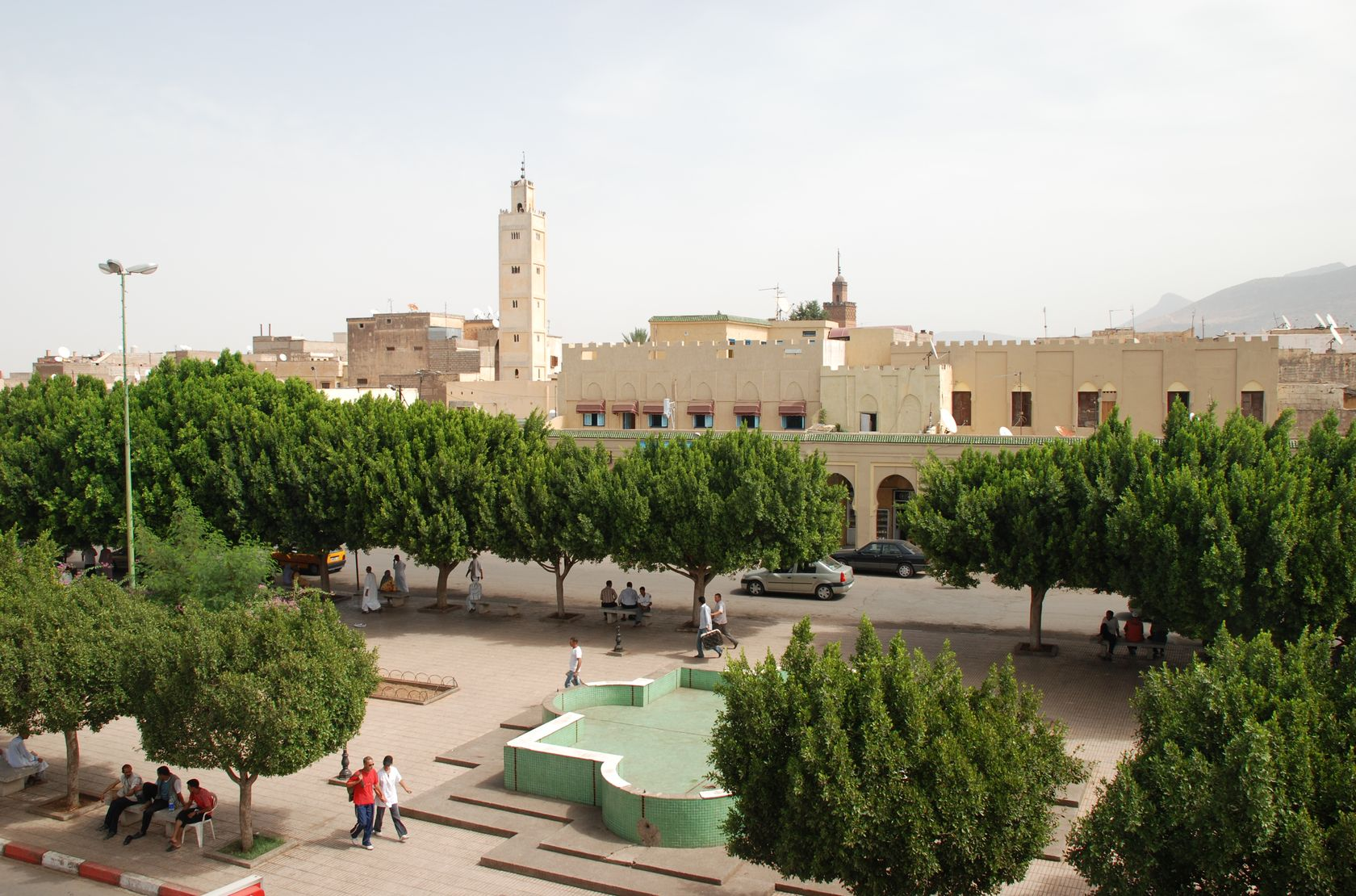 Beni Mellal, Morocco, old city square